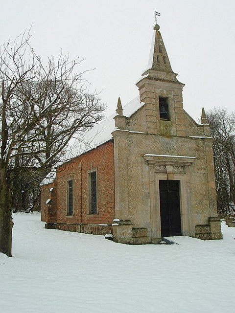 St John the Evangelist's parish church, Little Gidding, Cambridgeshire (formerly Huntingdonshire), seen from the northwest in snow